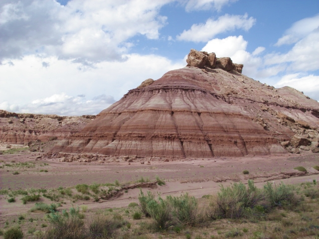 Brushy Basin Member on the Colorado Plateau, west of Green River, Utah.